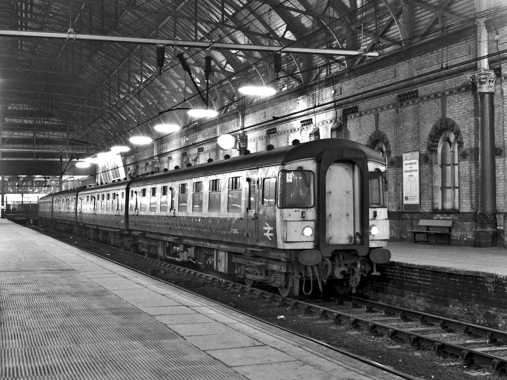 British Railways Swindon Works mixed four car diesel-mechanical multiple unit formed of class 123 driving motor corridor second number E52102, class 124 trailer brake corridor second number E59838, ? and class 123 driving motor corridor second number E52097 stands on platform 1 at Manchester Piccadilly station forming the 22:45 Manchester Piccadilly to Sheffield (1E74). Saturday 10th March 1984